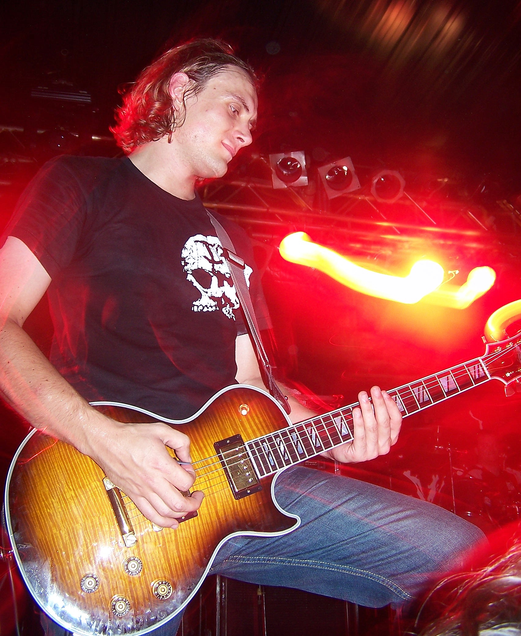 Maik Weichert of Heaven Shall Burn at Hell On Earth 2006 in München. 2006, September 28